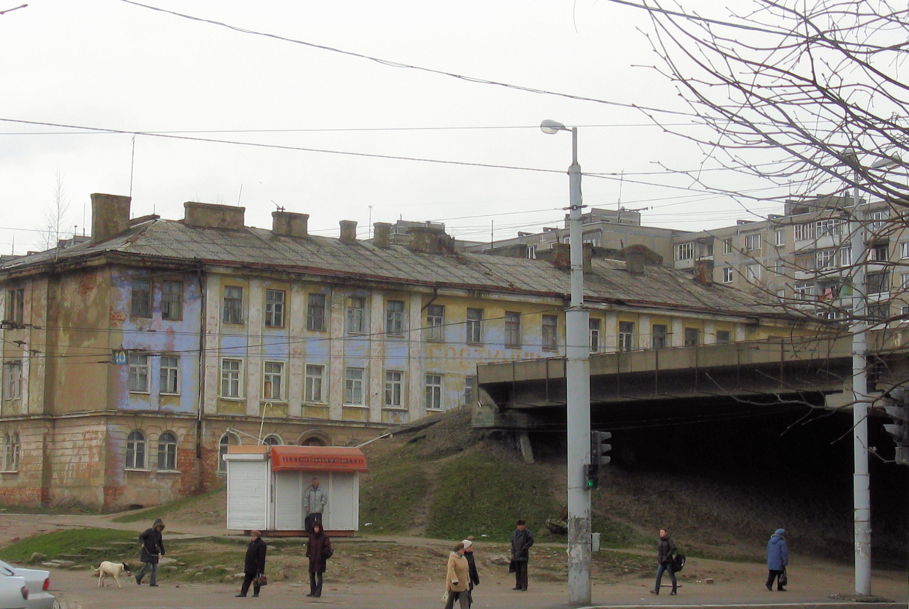 Unfinished "second overpass" in Kaliningrad. View from Moskovsky Prospekt.